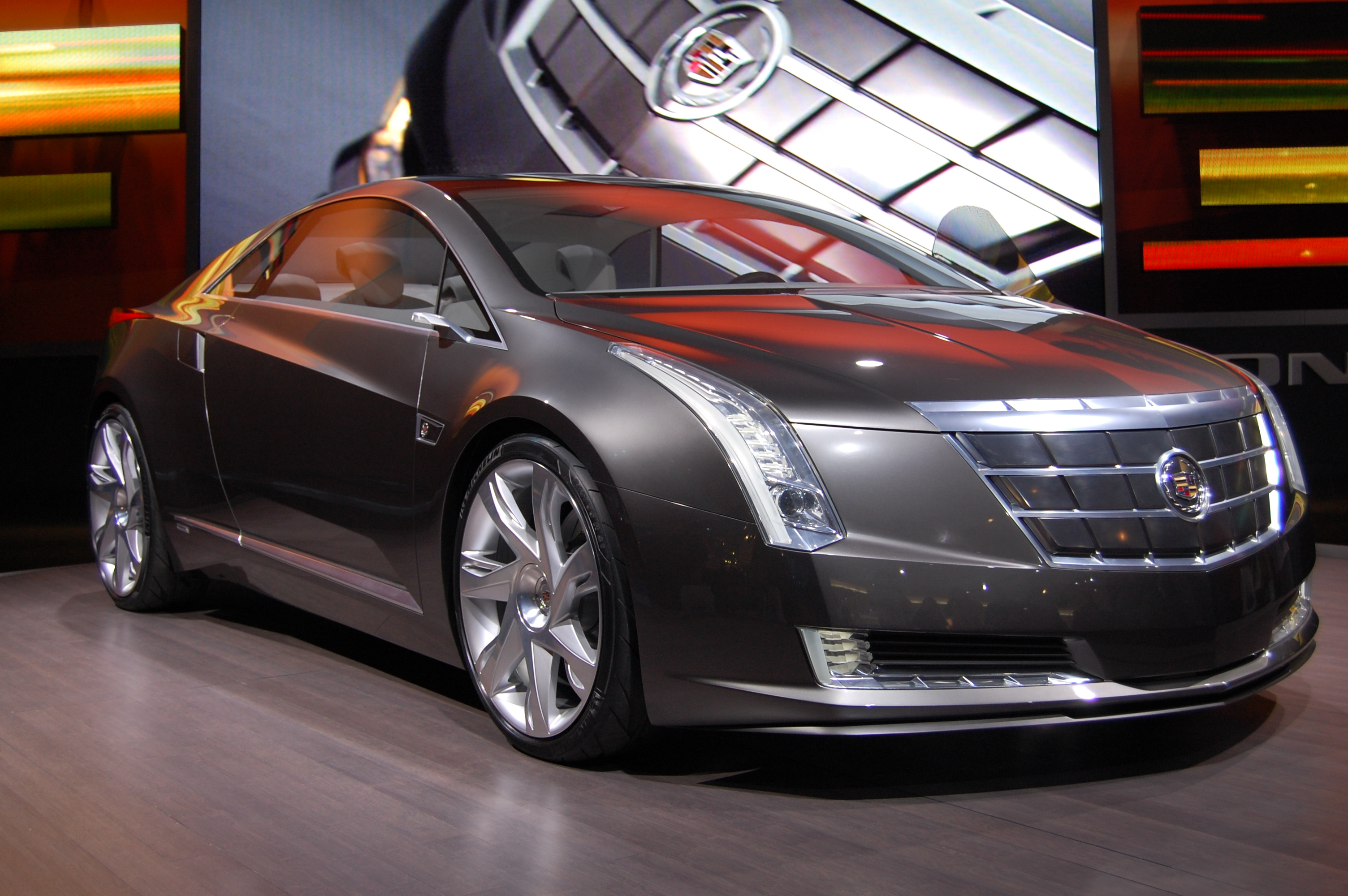 A picture of the Cadillac Converj Concept car taken at the 2009 North American International Auto Show.